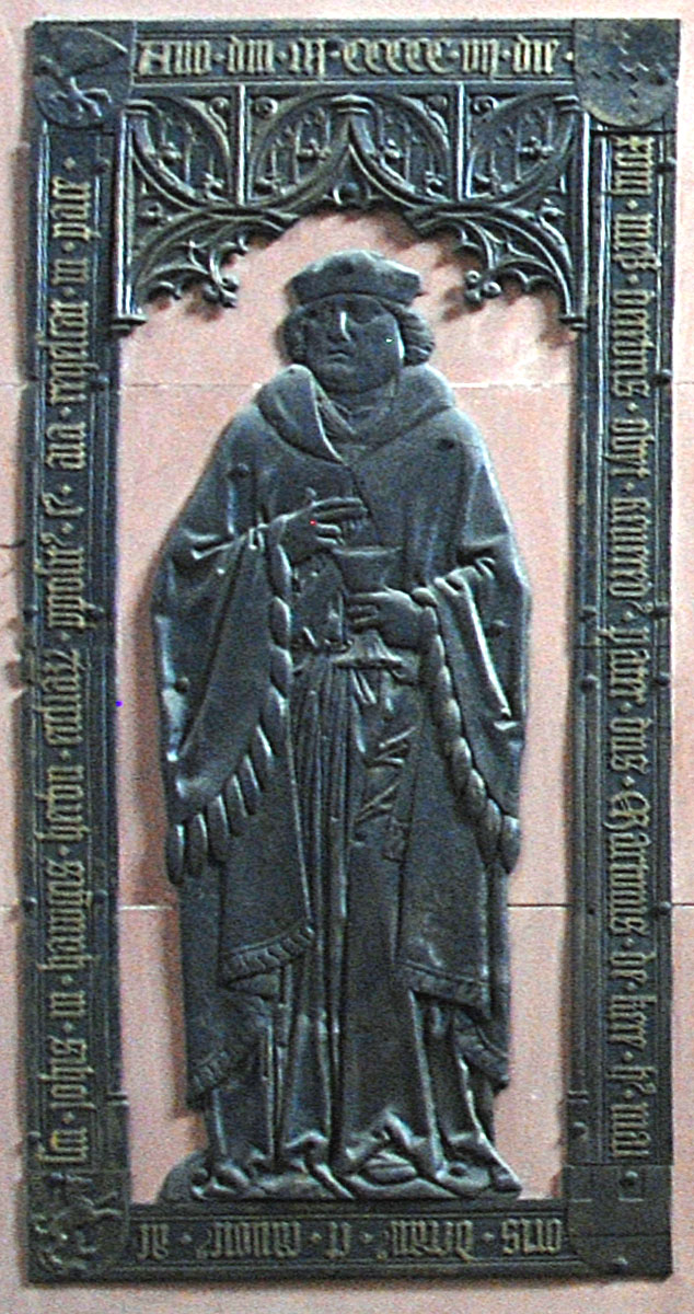 Martin von der Kere bronze plate Wurzburg Cathedral